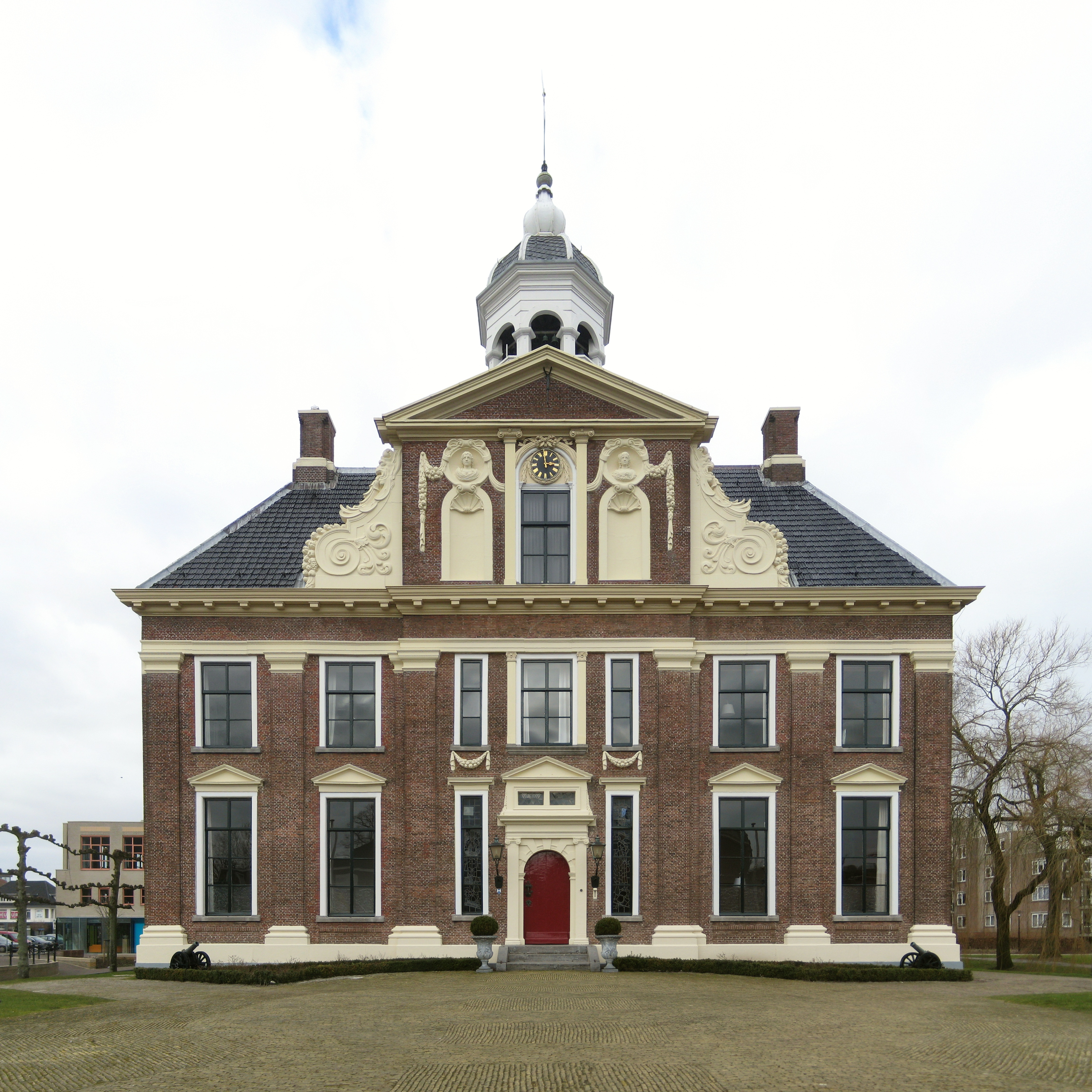 Crackstate, a seventeenth century stins in Heerenveen, a town in the Dutch province of Fryslân.